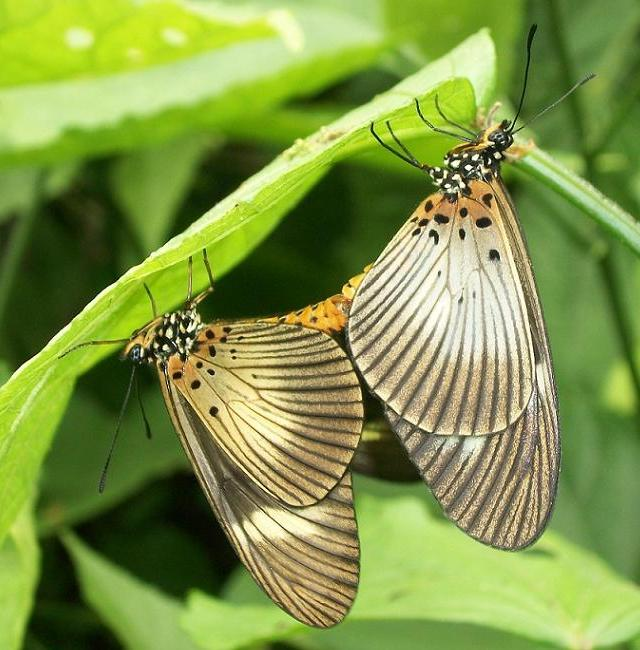 Mating pair of Telchinia esebria from Athlone Park, Amanzimtoti, South Africa.